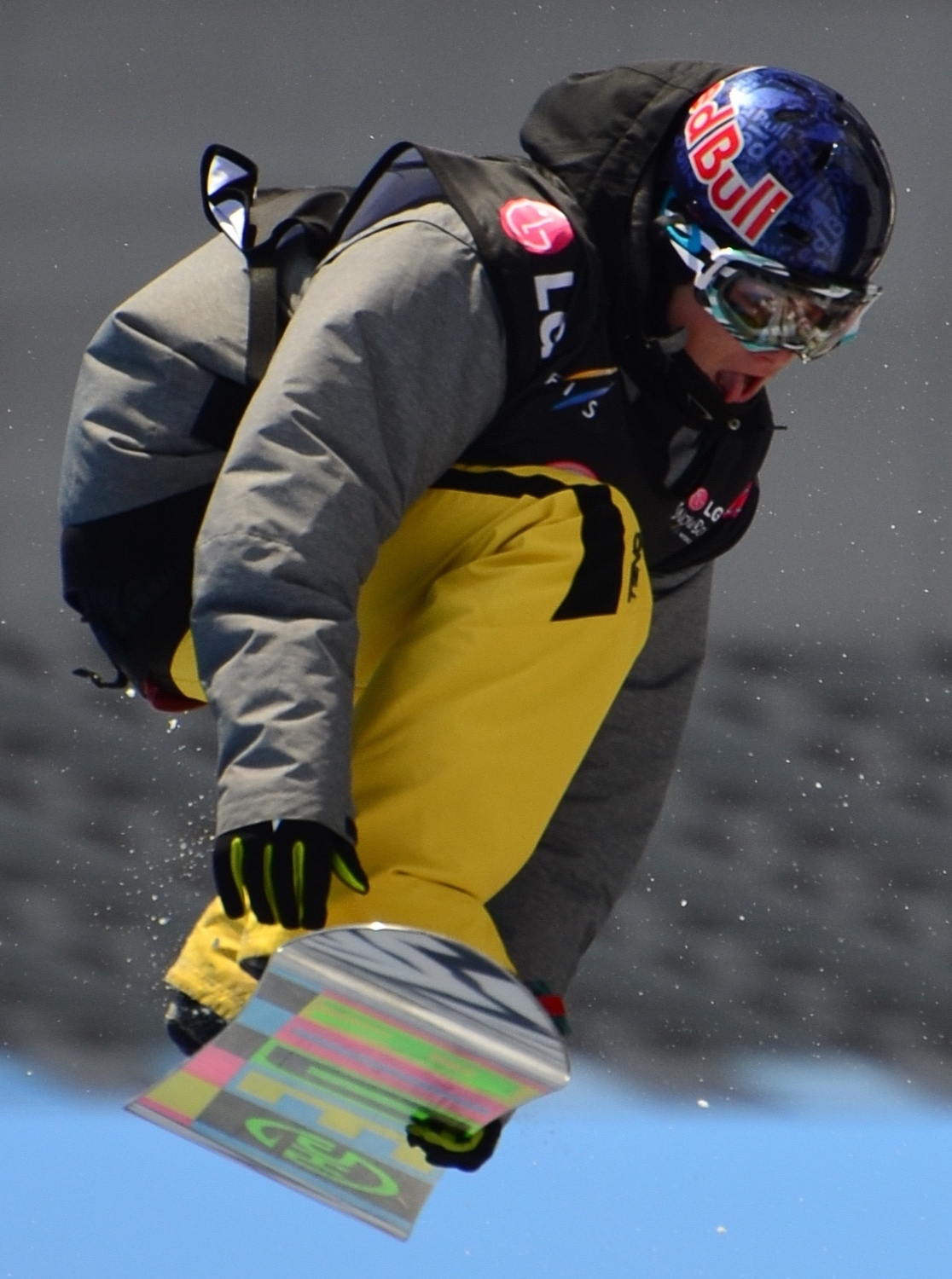 Sébastien Toutant, a snowboarder, at the downtown Québec big air competition. He won the event.